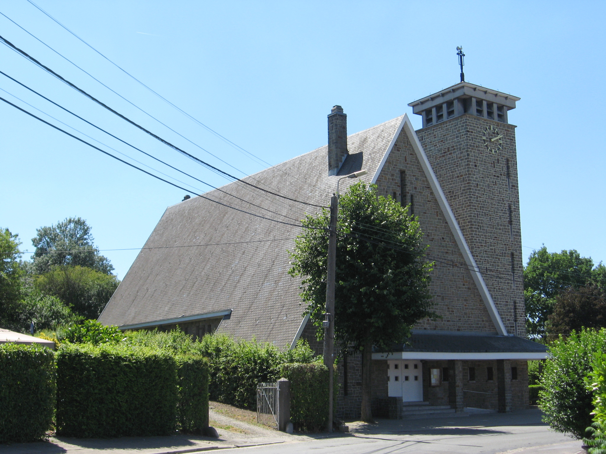 Church of Saint John the Baptiser in Housse, Blegny, Liège, Belgium